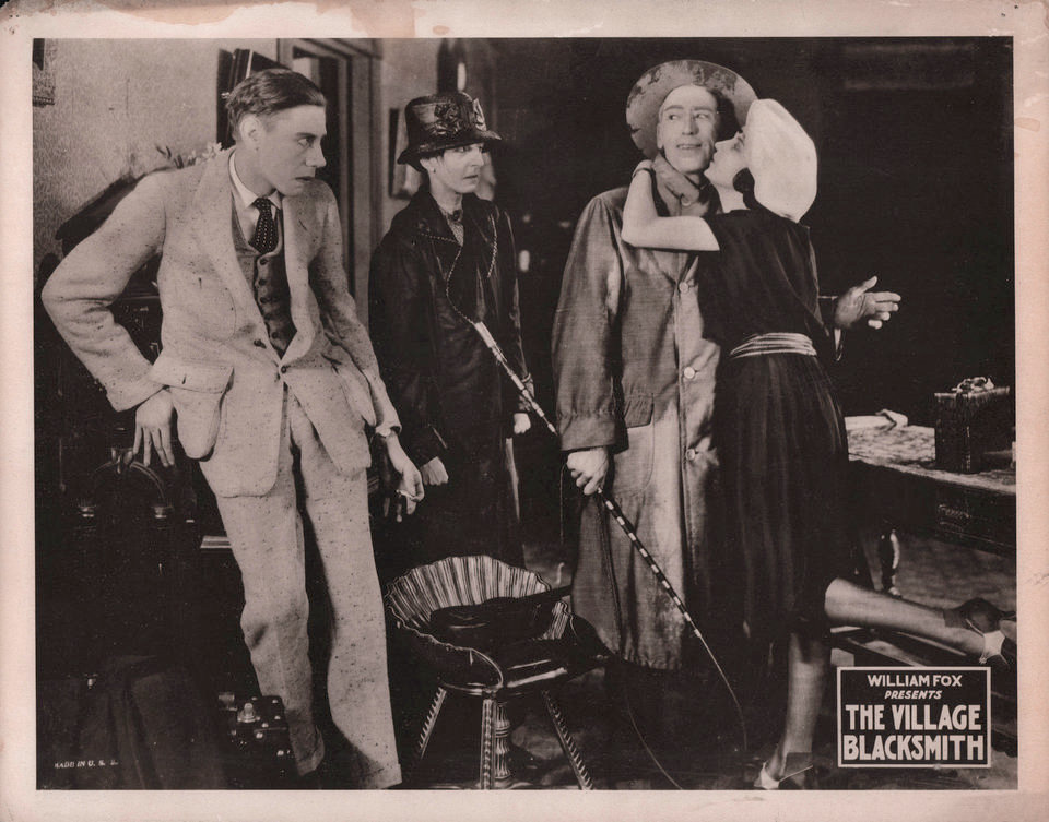 The Village Blacksmith is a 1922 American drama film directed by John Ford and produced and distributed by Fox Film Corporation. This is a lobby card for the film.